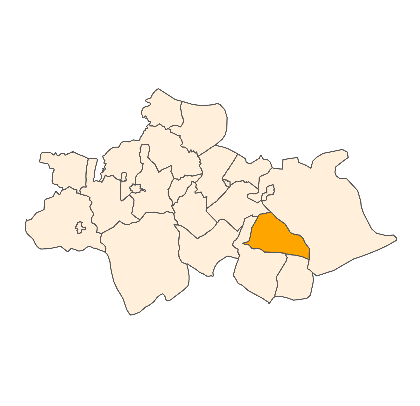 Commune (Orange), Sefrou Province (Antique White)